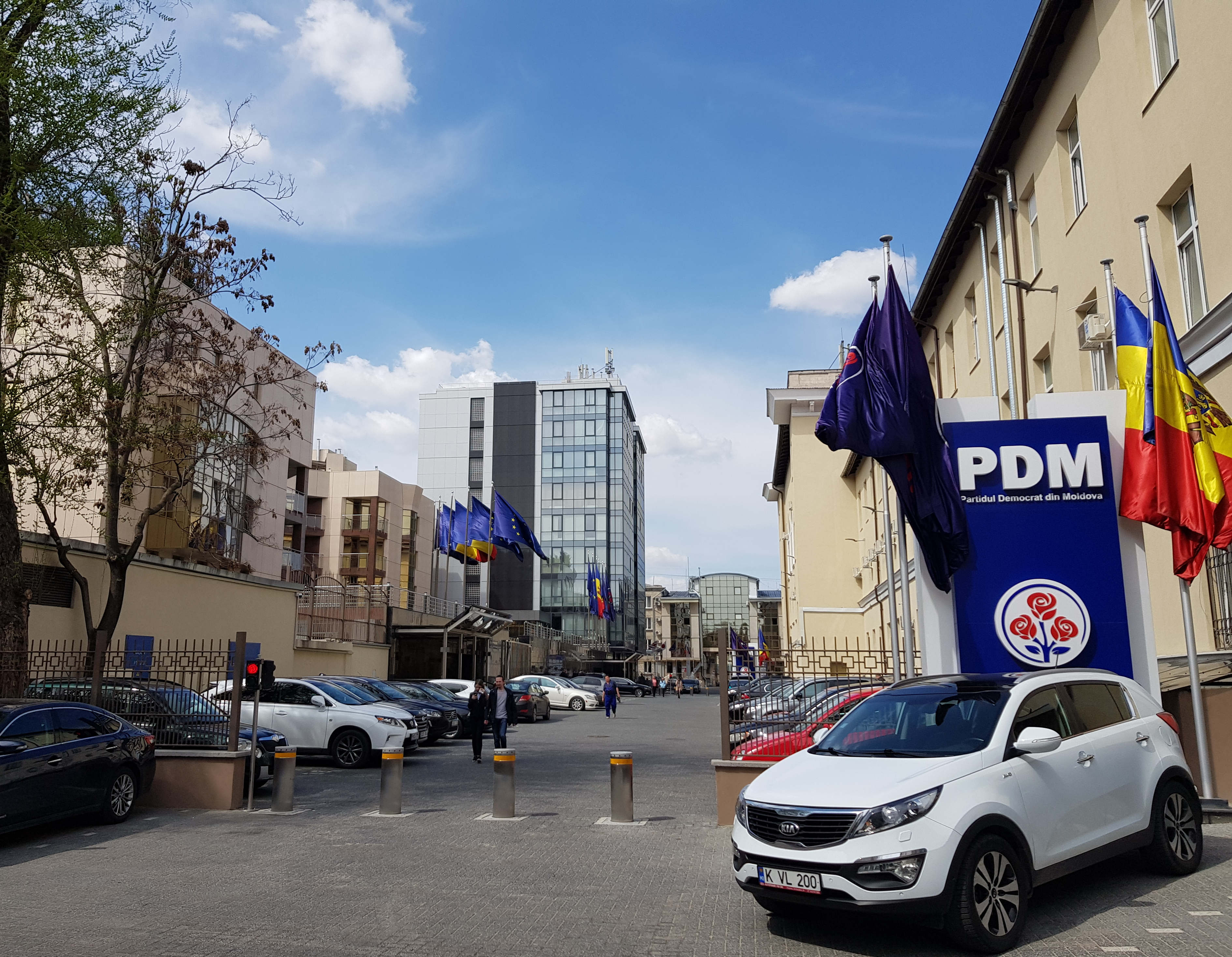 Headqarters of the social-democratic Partidul Democrat din Moldova in Chişinău in the building on the left. The Japanese embassy is on the 5th floor of the glass-fronted building (National Business Centre, 73/1, Stefan cel Mare Blvd.)